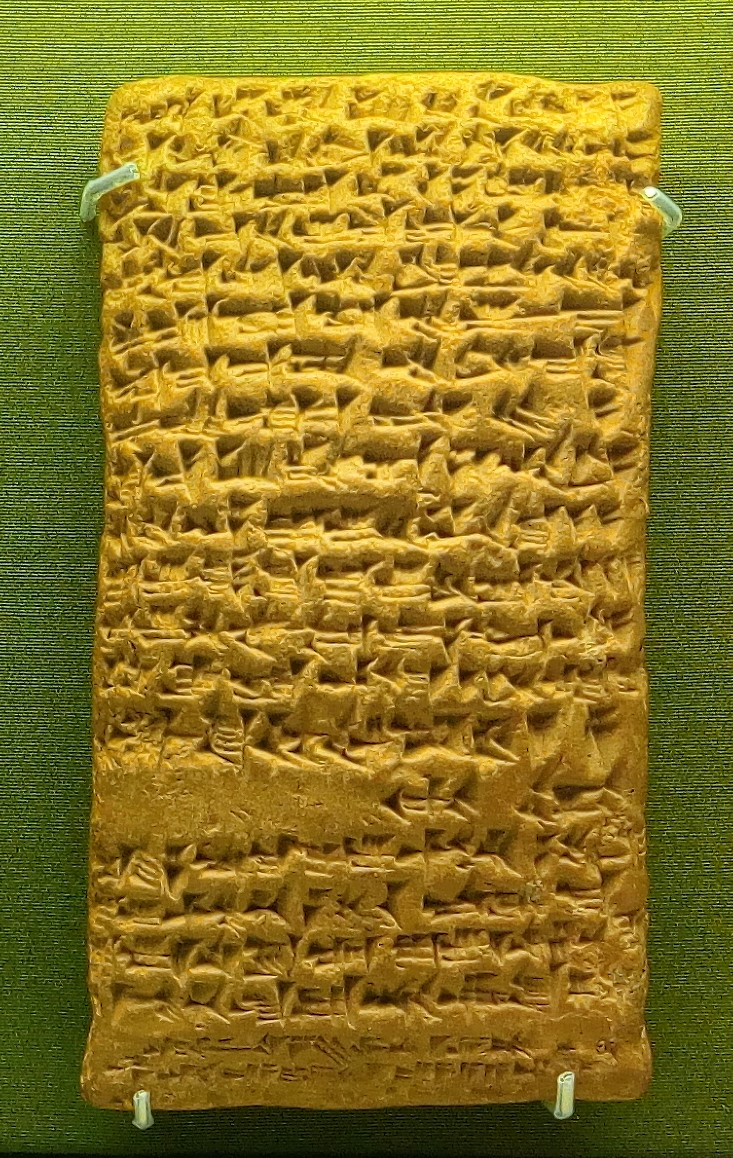 Tablet of omen enquiry, hepatoscopy (reading the liver of a lamb), asking the gods whether Nabû-bêl-shimate, the Sealander, will join the revolt of Shamash-shum-ukin, king of Babylon, against his brother Ashurbanipal, king of Assyria. 651 BC, Nineveh. K.159 and SAA IV 280.